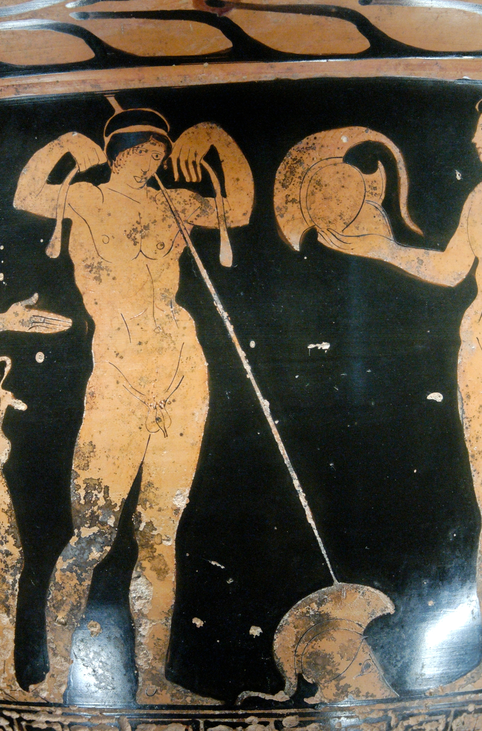 Warrior's departure. Lucanian red-figured bell-krater, ca. 420 BC. From Ginosa.